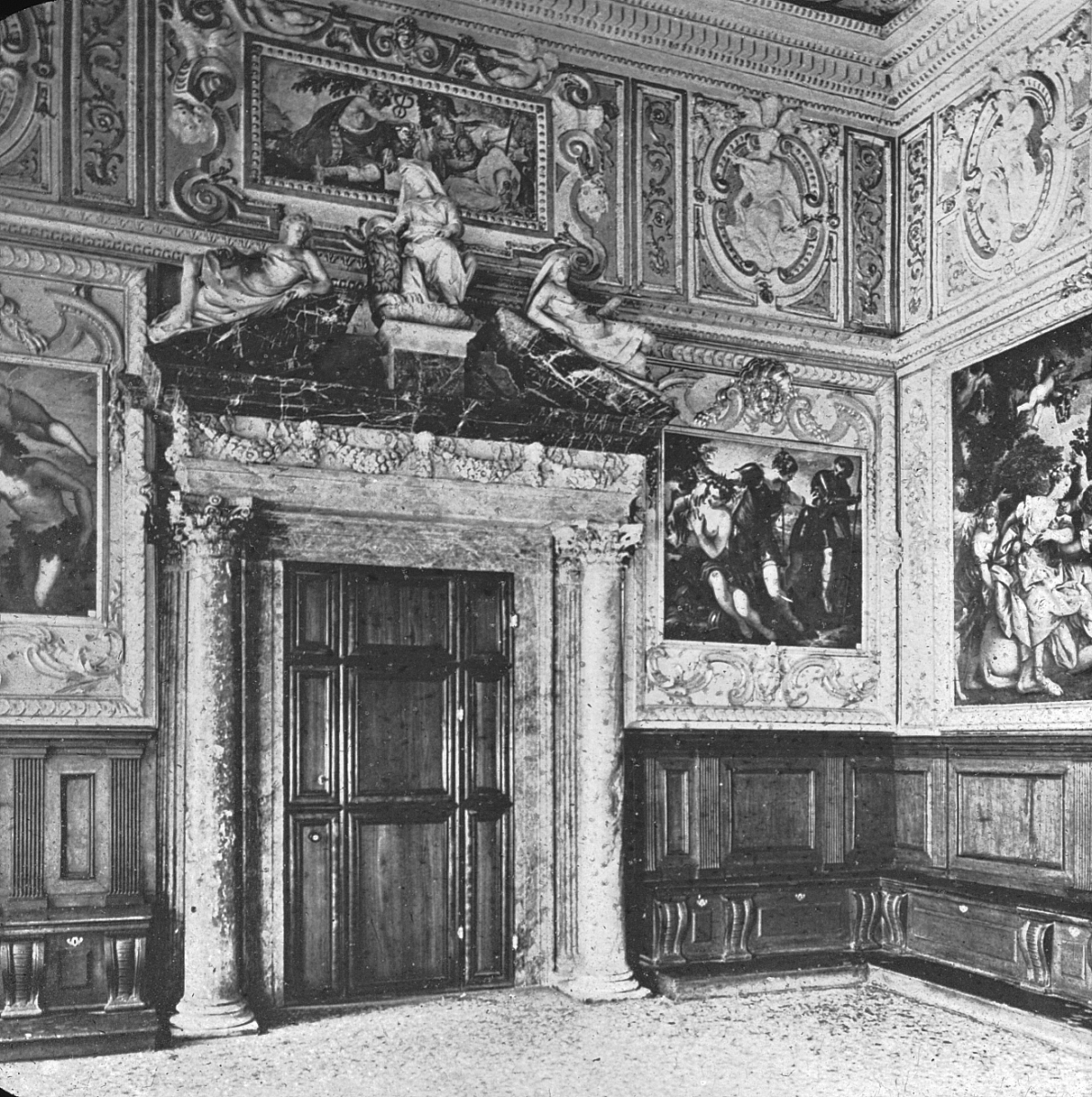 Palazzo Ducale, Venice, Italy. Venice - Doge's Palace, interior of the third floor, paintings by Tintoretto. Brooklyn Museum Archives, Goodyear Archival Collection (S03_06_01_027 image 3369).